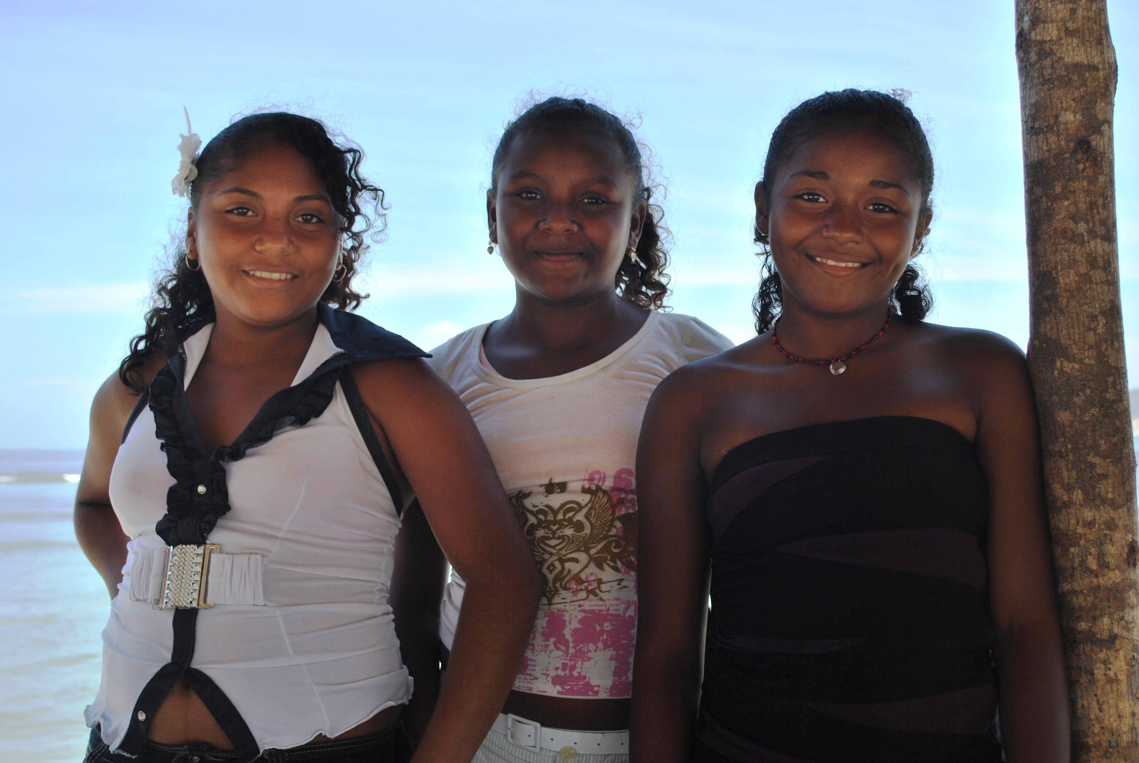 Friends at Punta Maldonada, Cuajinicuilapa, Guerrero